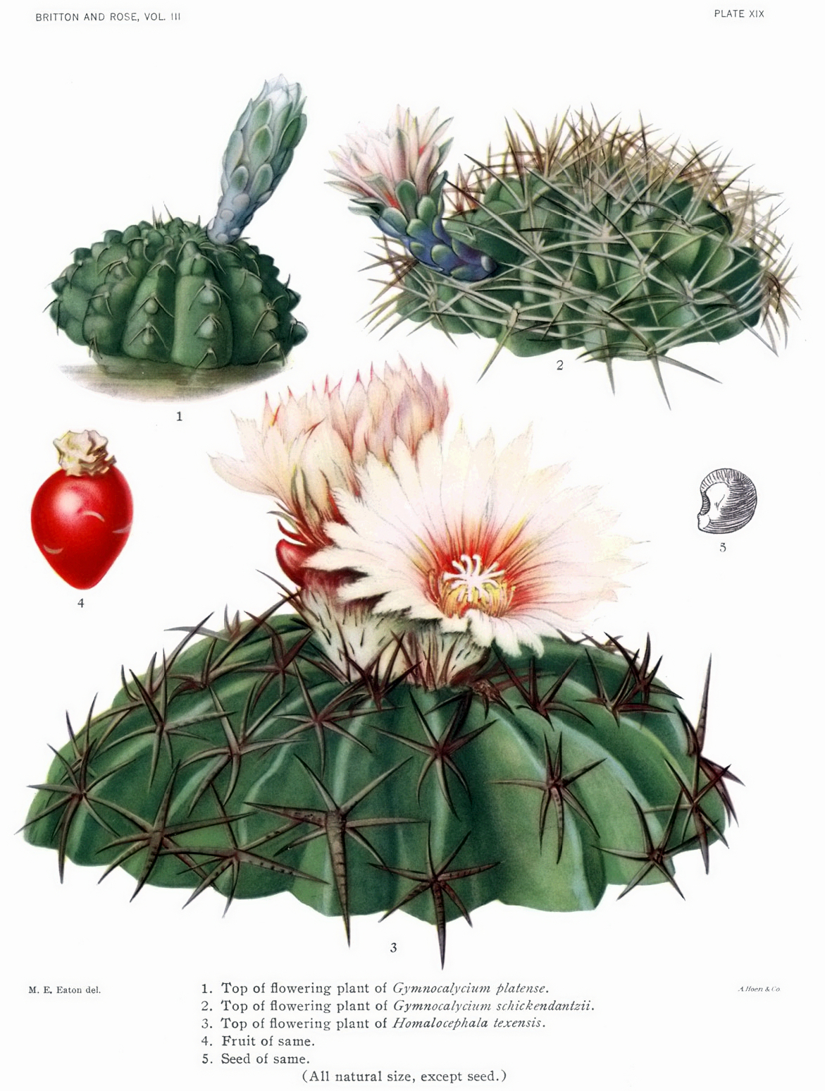 Gymnocalycium platense, G. schickendantzii, Homalocephala texensis